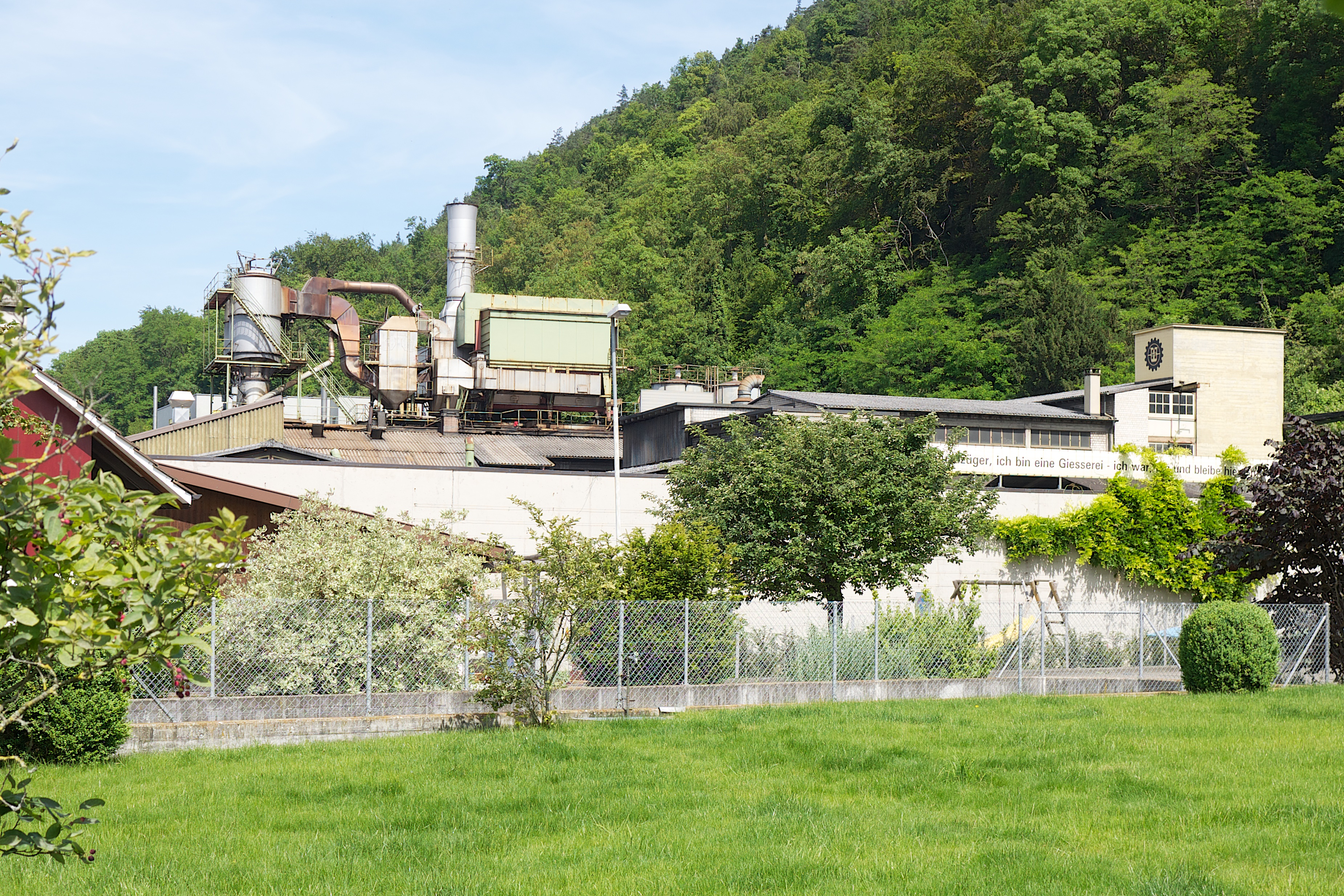 Casting plant Erzberg in Liestal, Switzerland